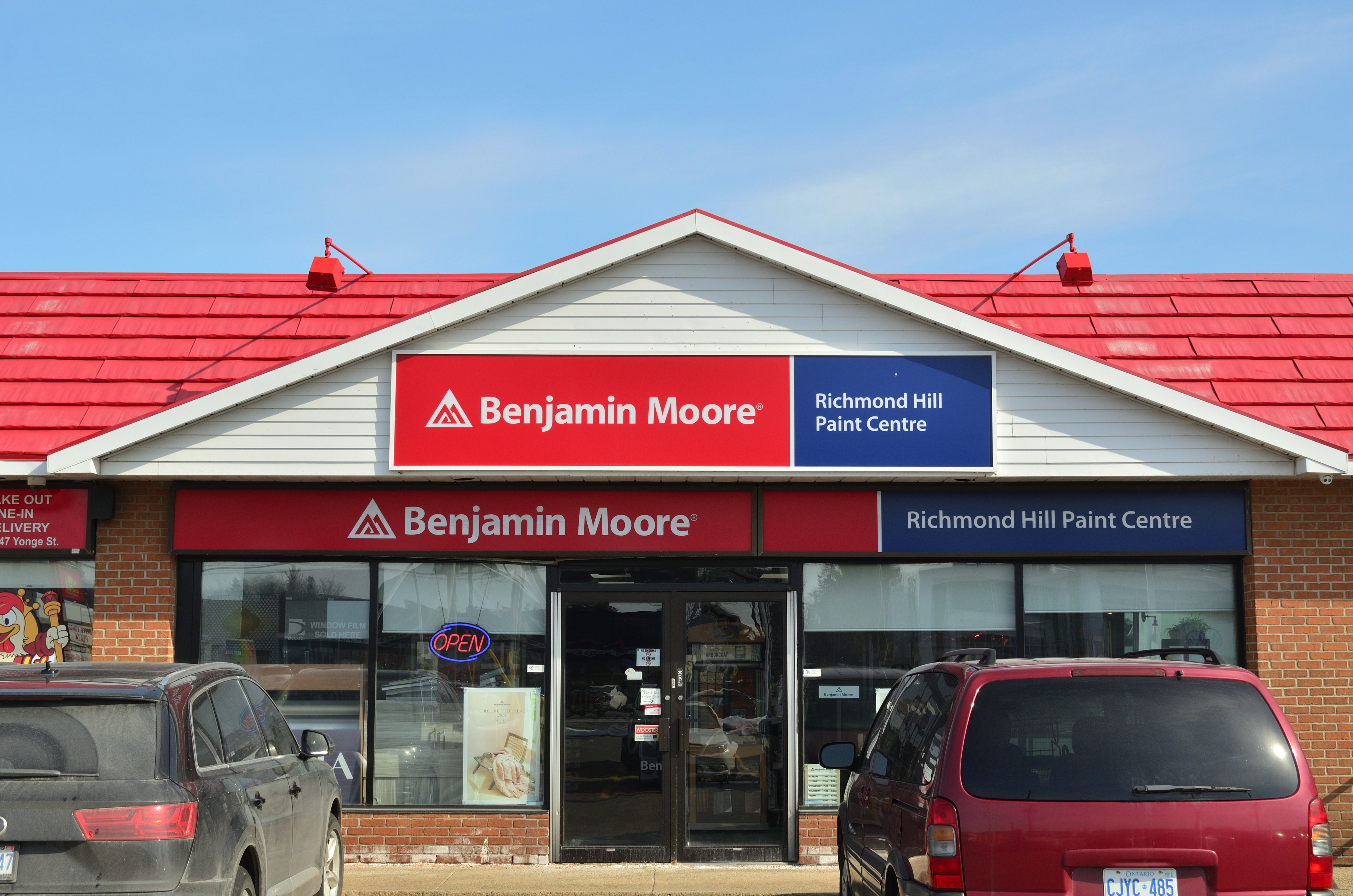 Richmond Hill Paint Centre - Address: 10445 Yonge St, Richmond Hill, ON L4C 3C2